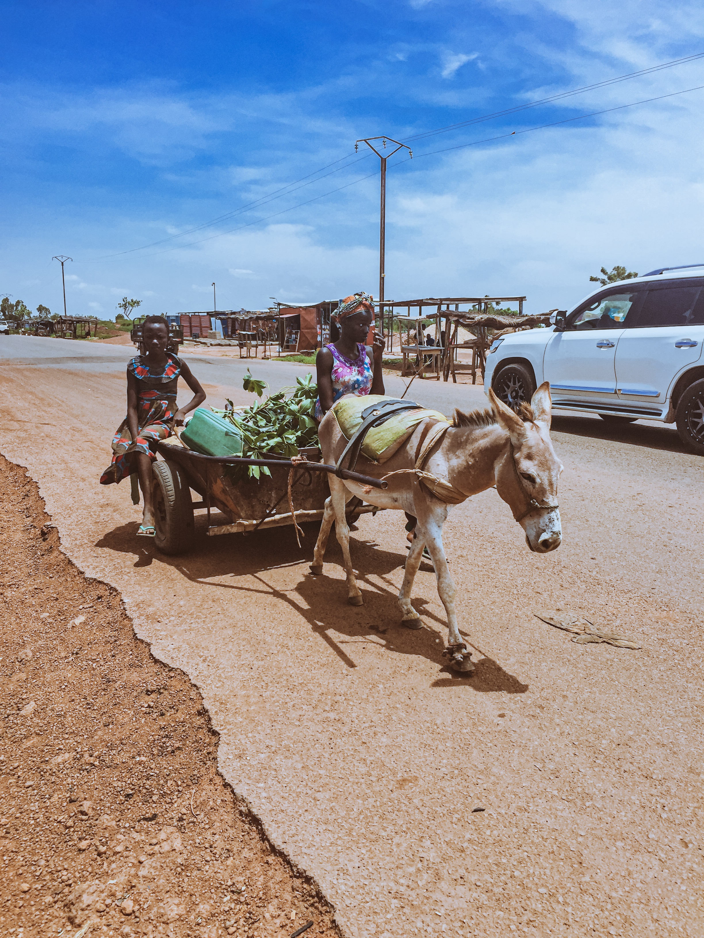 If only we were just a crossroad from bridging the gap between the rich and the poor